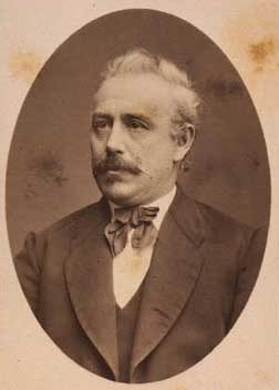 Niels Christian Petersen (1833-1896), Danish landscape and porcelain painter